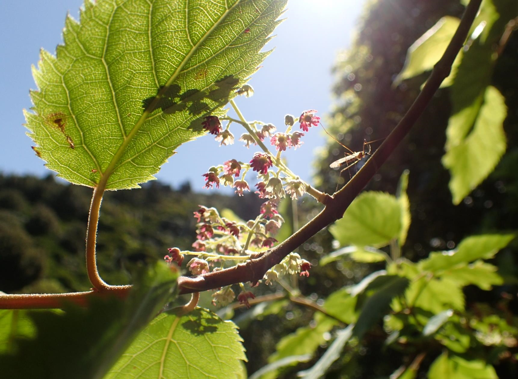 wineberry leaf (underside) and flower